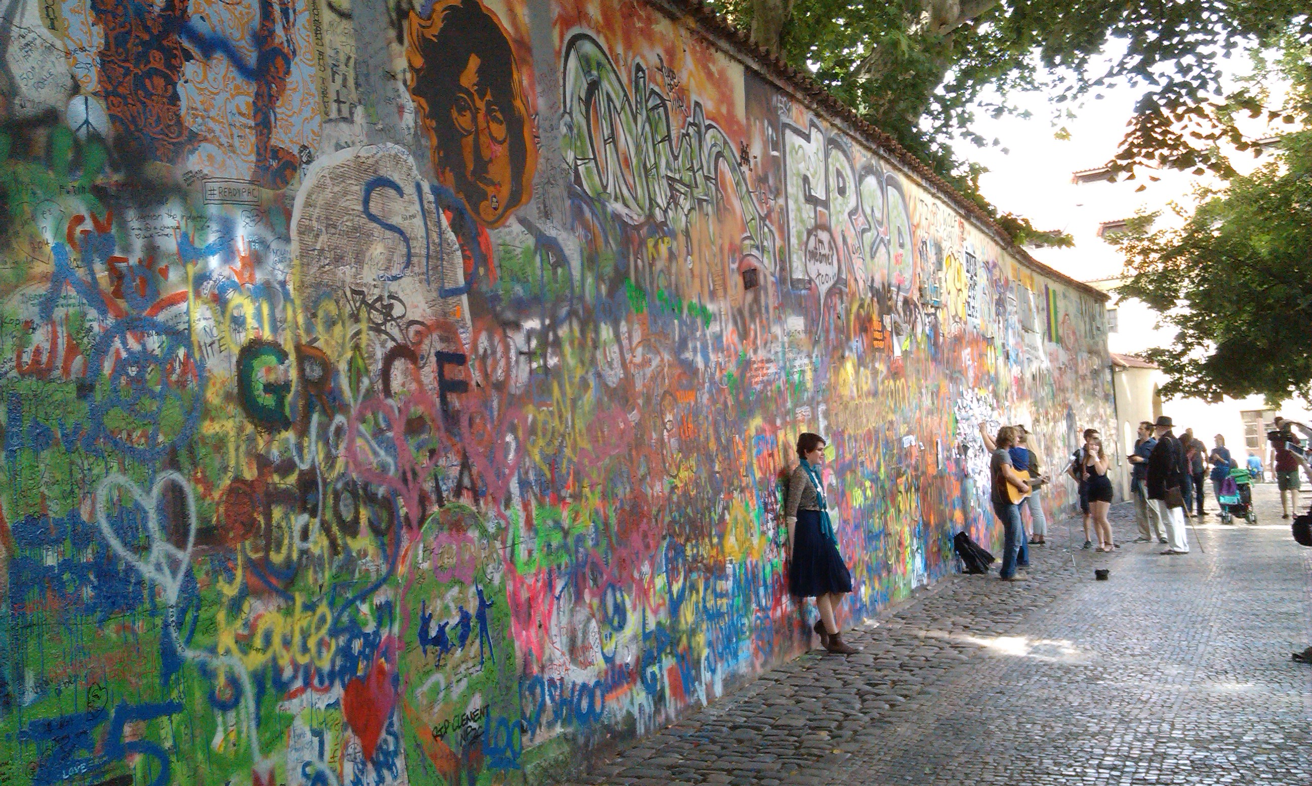 Part of John Lennon Wall in Prague, Rep Czech